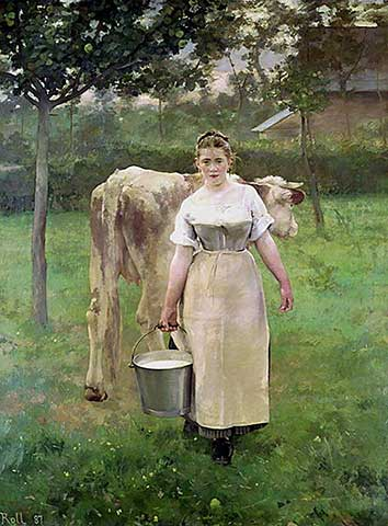 Farmmaid